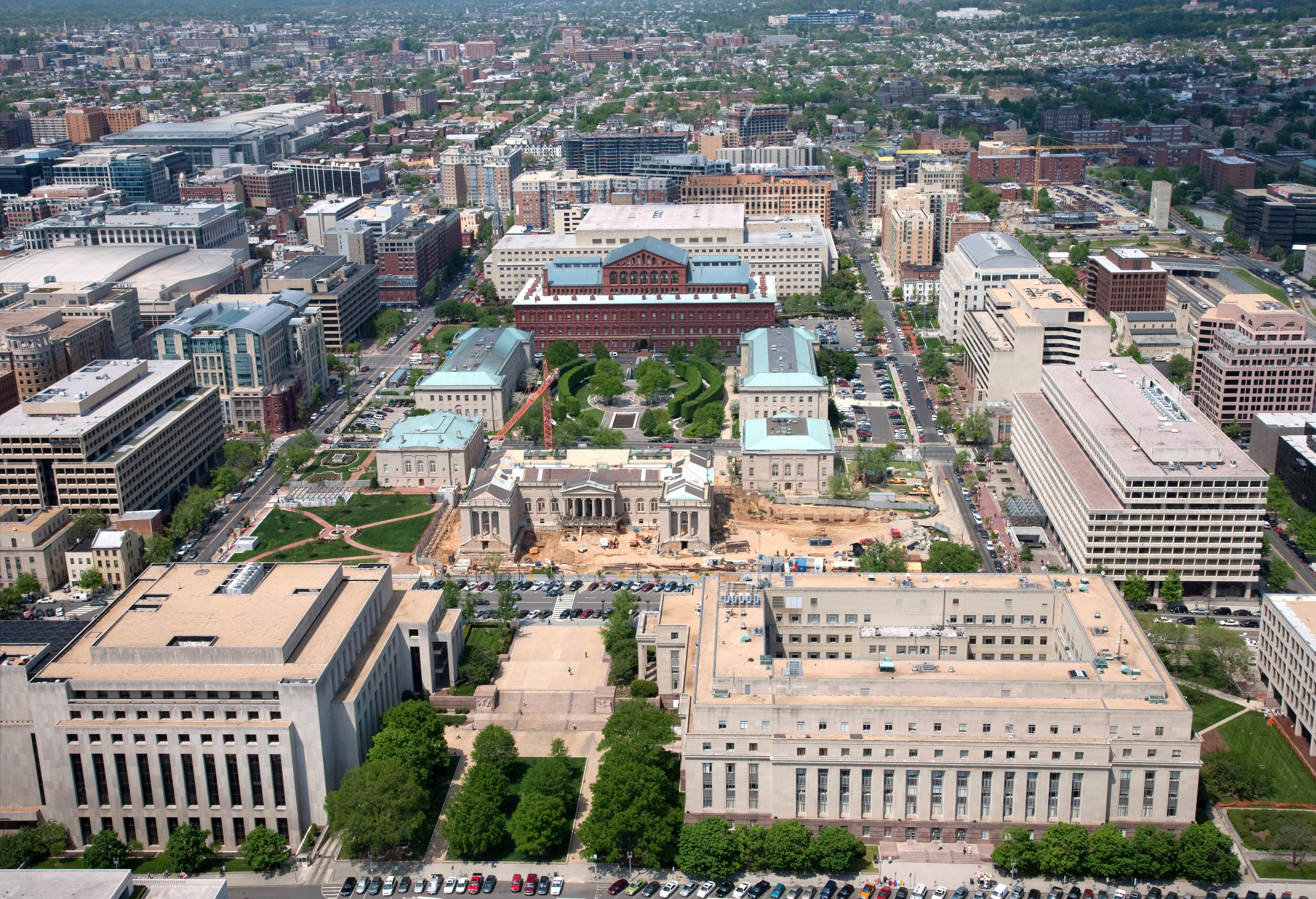 Aerial view of the National Building Museum and surrounding Judiciary Square neighborhood in Washington, D.C.